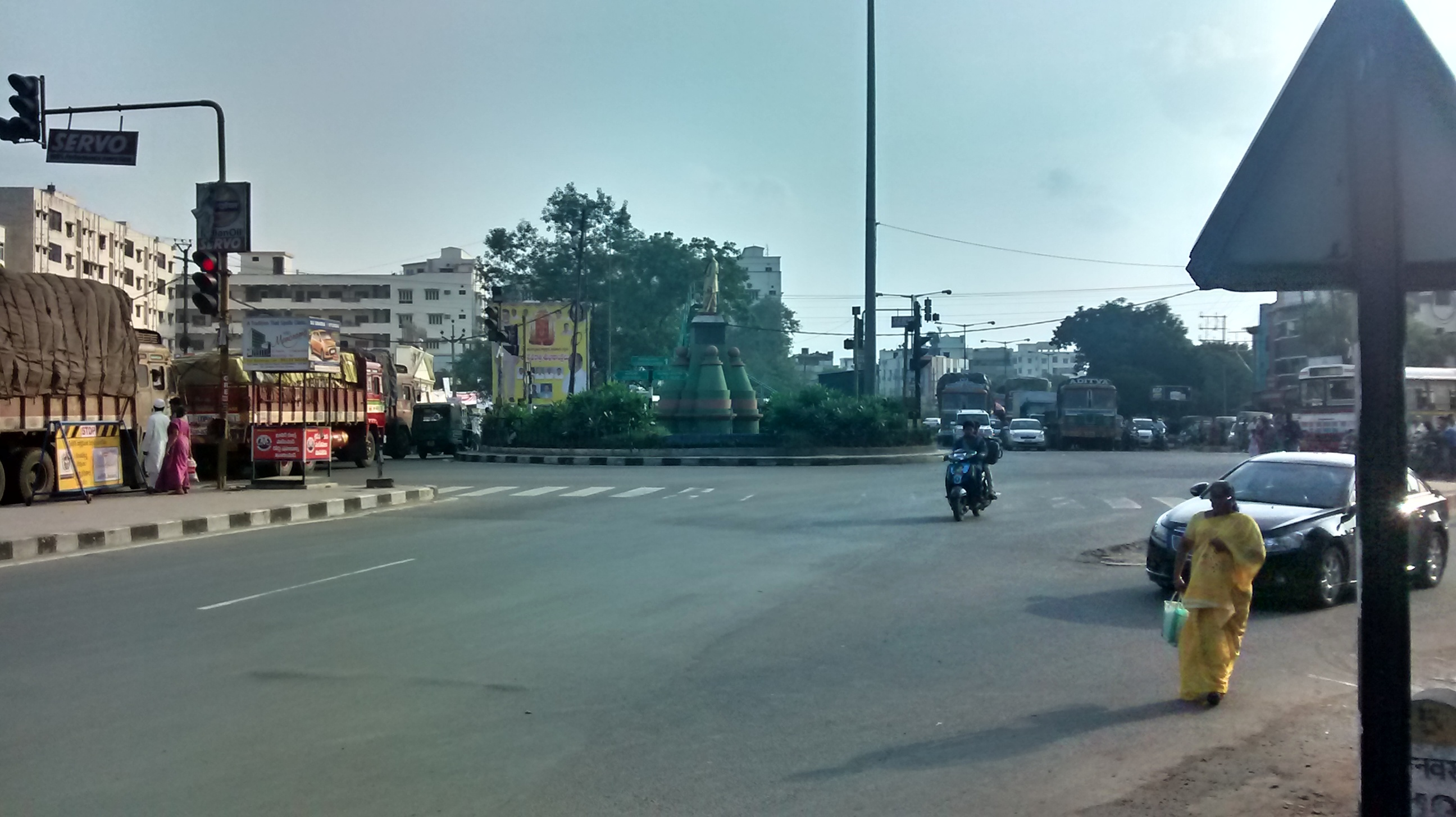 Benz Circle in Vijayawada